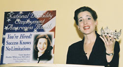 Former Miss America Heather Whitestone McCallum was the keynote speaker at a USAID-sponsored event marking National Disability Employment Awareness Month.